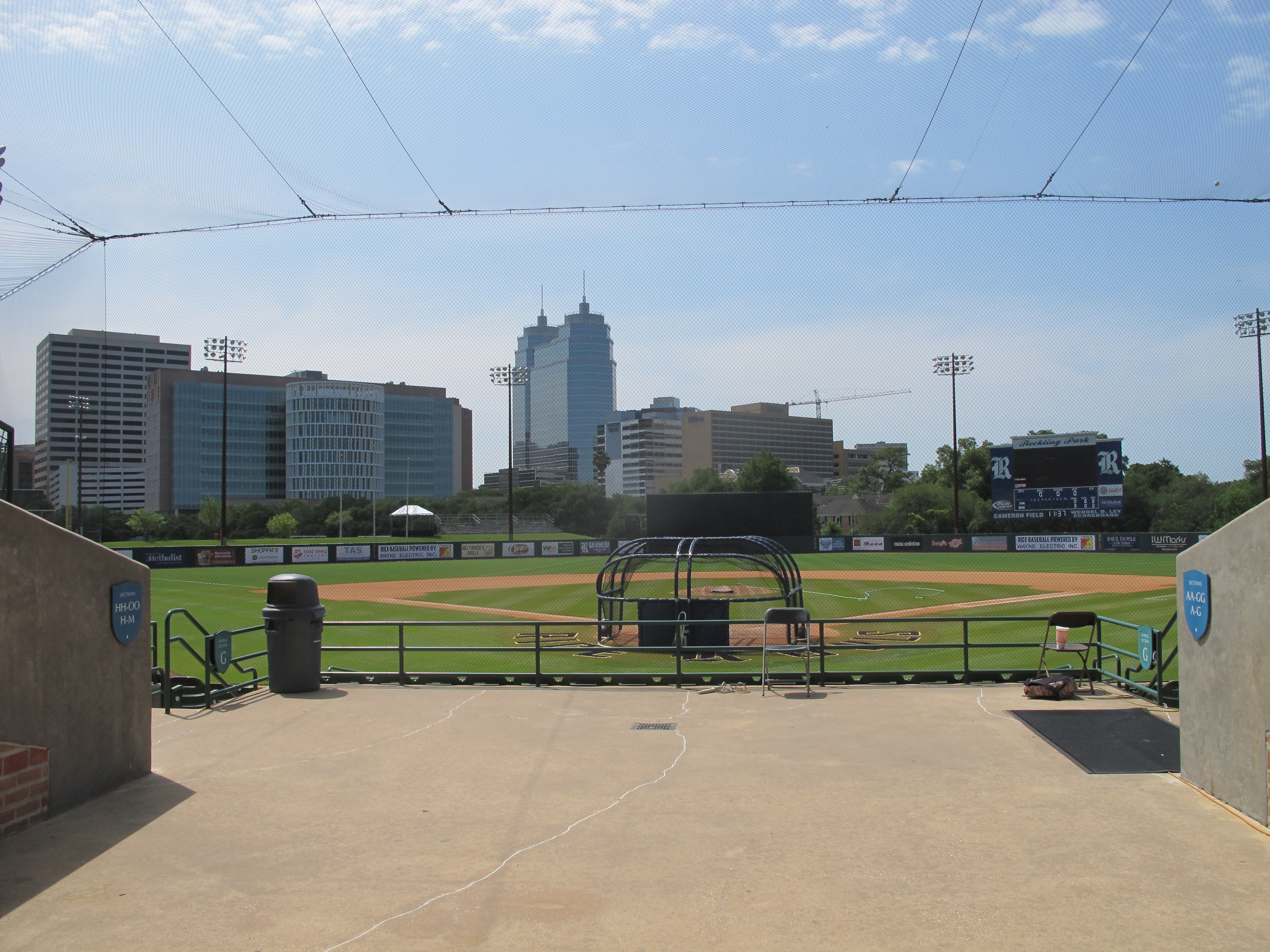 Rice Reckling's Field spectular Center field view of Downtonw Houston